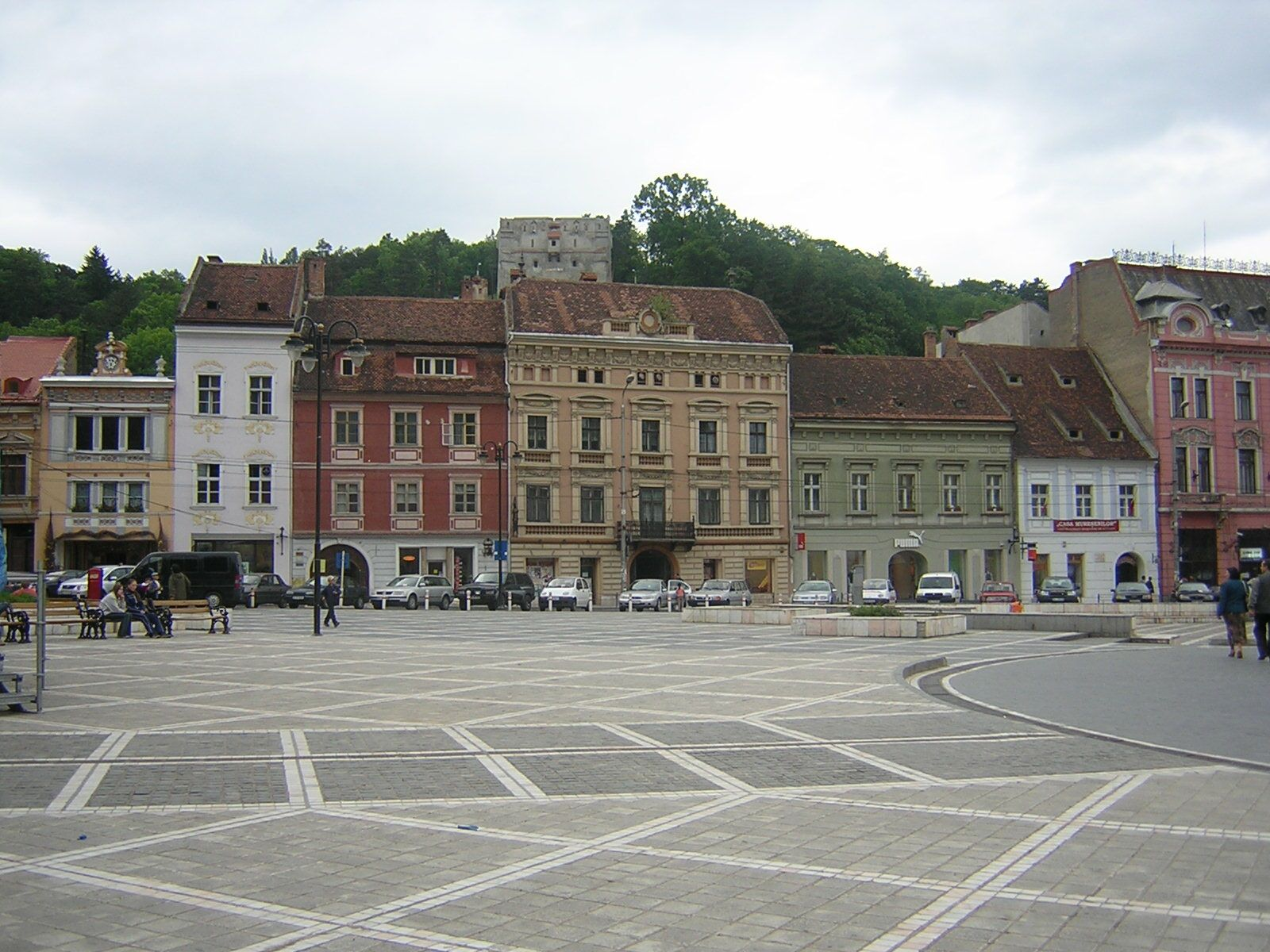 User:Deadstar's own picture of the main square in Brasov, Romania, taken in May 2004.